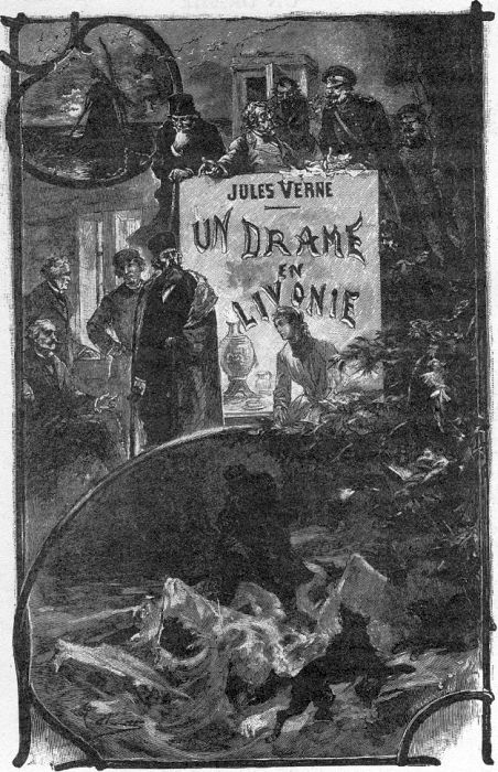 An illustration from Jules Verne's novel "A Drama in Livonia" (1893) drawn by Léon Benett.